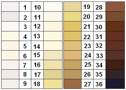 This is a reproduction of the Von Luschan's chromatic scale made by anthropologist Felix von Luschan. It was self-made from scratch with the paint program in the likeness of the chart originally printed in Voelker, Rassen, Sprachen (1927). The skin colors used were copied from a scan of the original chart box per box using the paint program's dropper tool.--Dark Tichondrias 23:59, 27 August 2006 (UTC)